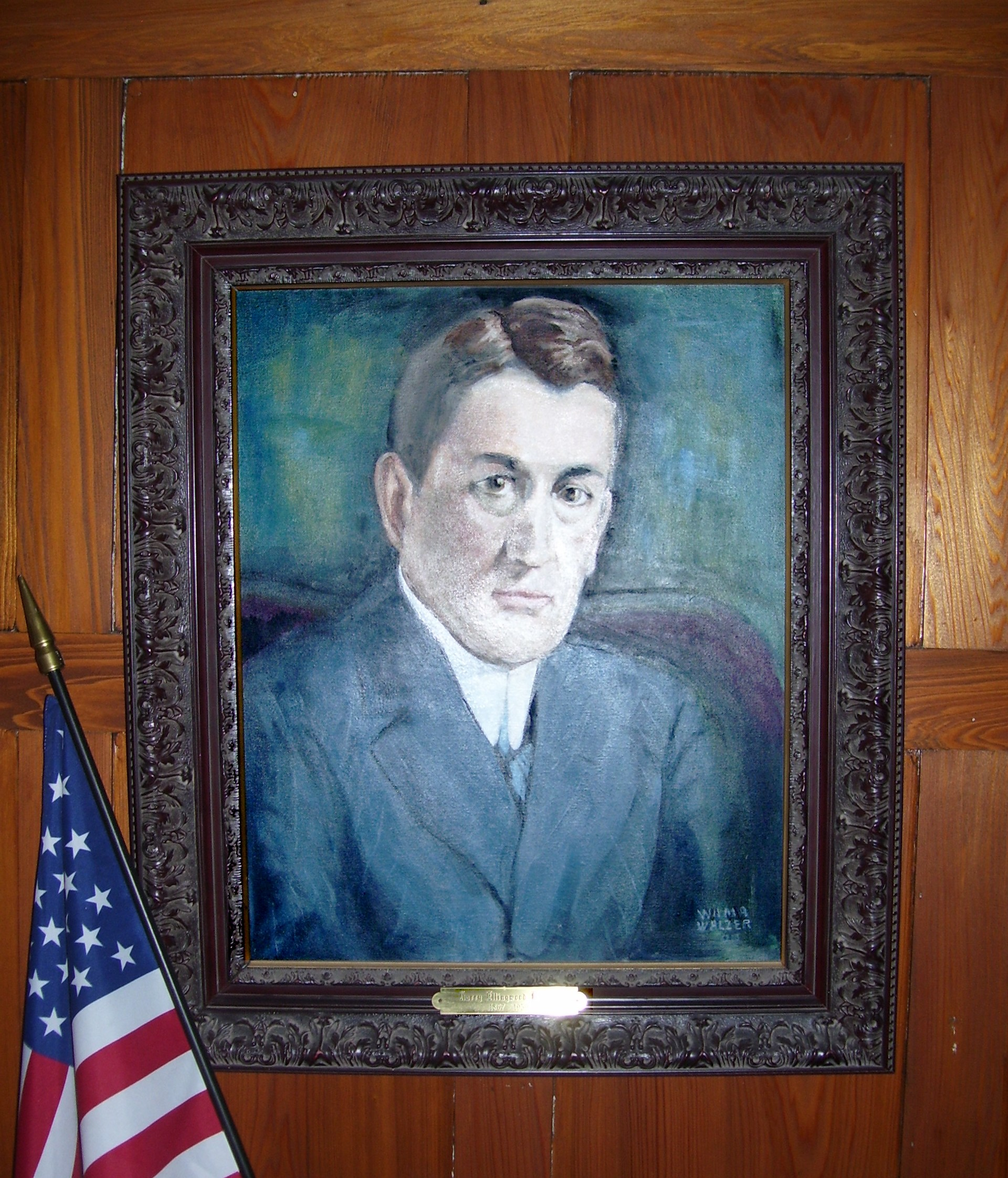 Photo of a painting I own located in my house of Beaux-Arts Architecht Harry E. Donnell (1868-1959)